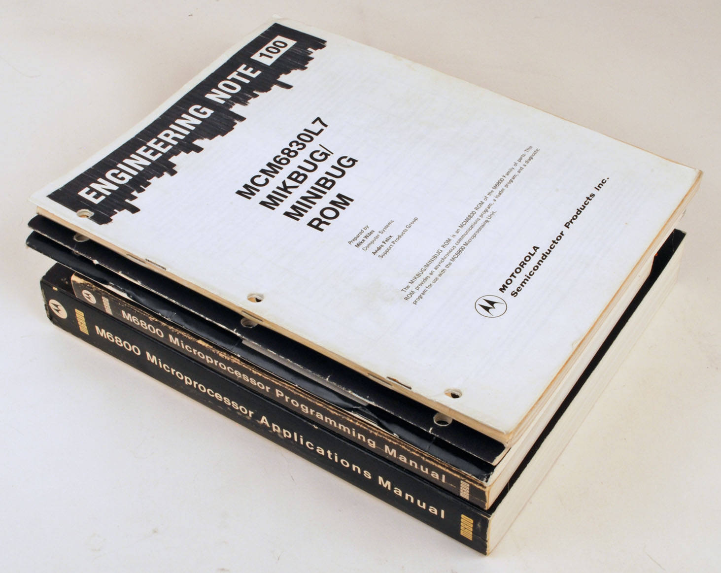 Motorola provided a comprehensive set of documentation for the M6800 Microcomputer System. (MC6800 referred to the microprocessor chip, M6800 referred to the whole system including peripheral chips.) From top to bottom MIKBUG Engineering Note 100 (1975) M6800 Microcomputer System Design Data (1976) M6800 System Reference and Data Sheets (1975) M6800 Programming Reference Manual (1976) M6800 Microprocessor Applications Manual (1975) The Microprocessor Applications Manual had 714 pages and describes how to build a point-of-sale terminal that has a bar code reader, a printer, a keyboard, a display and a floppy disk. Hardware schematics and software code is provided.